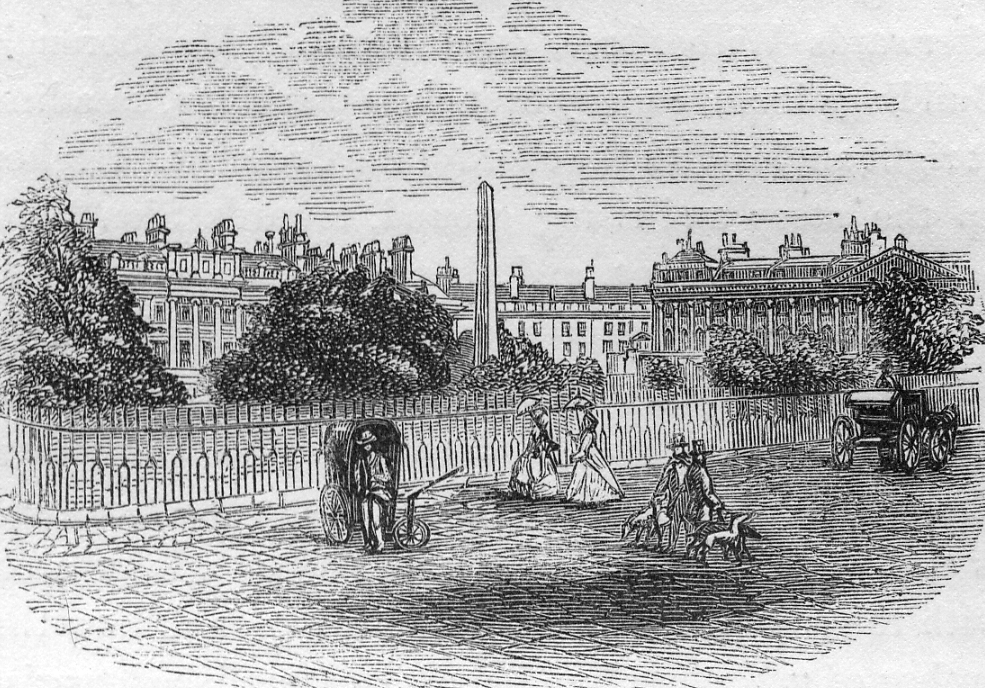 Engraving of Queen Square, Bath